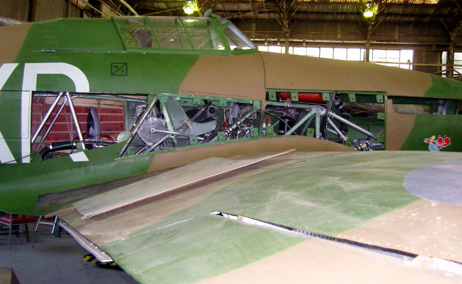 SAMSUNG DIGITAL CAMERA Photo ref: SNC11418